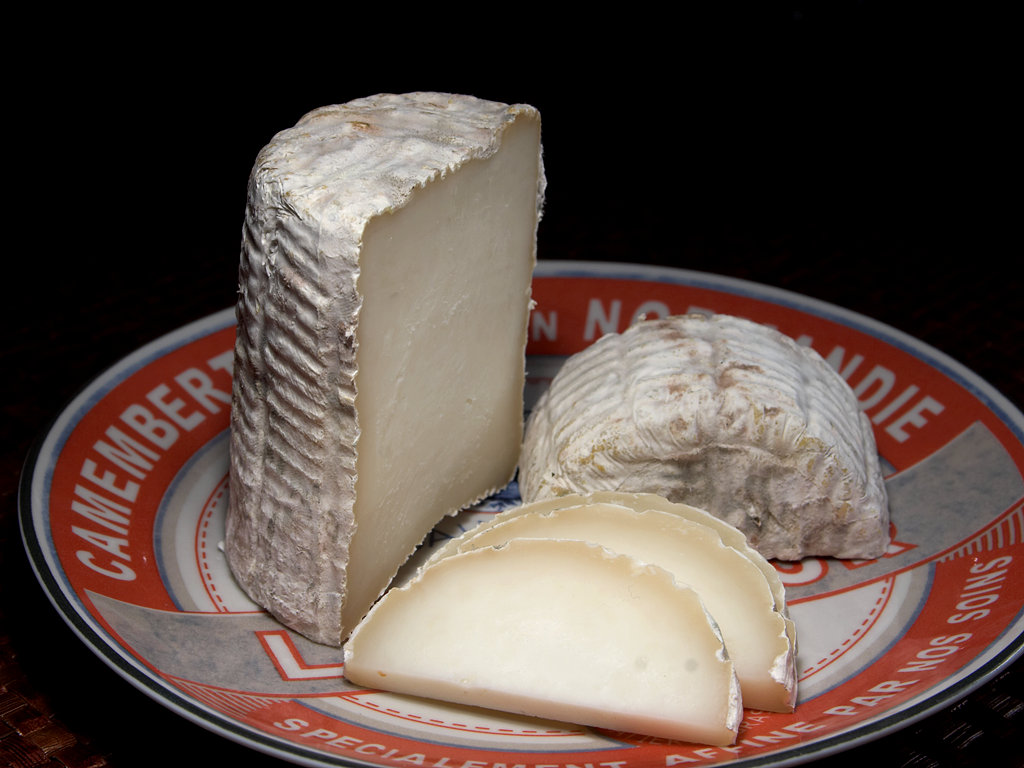 Tronchetto cheese